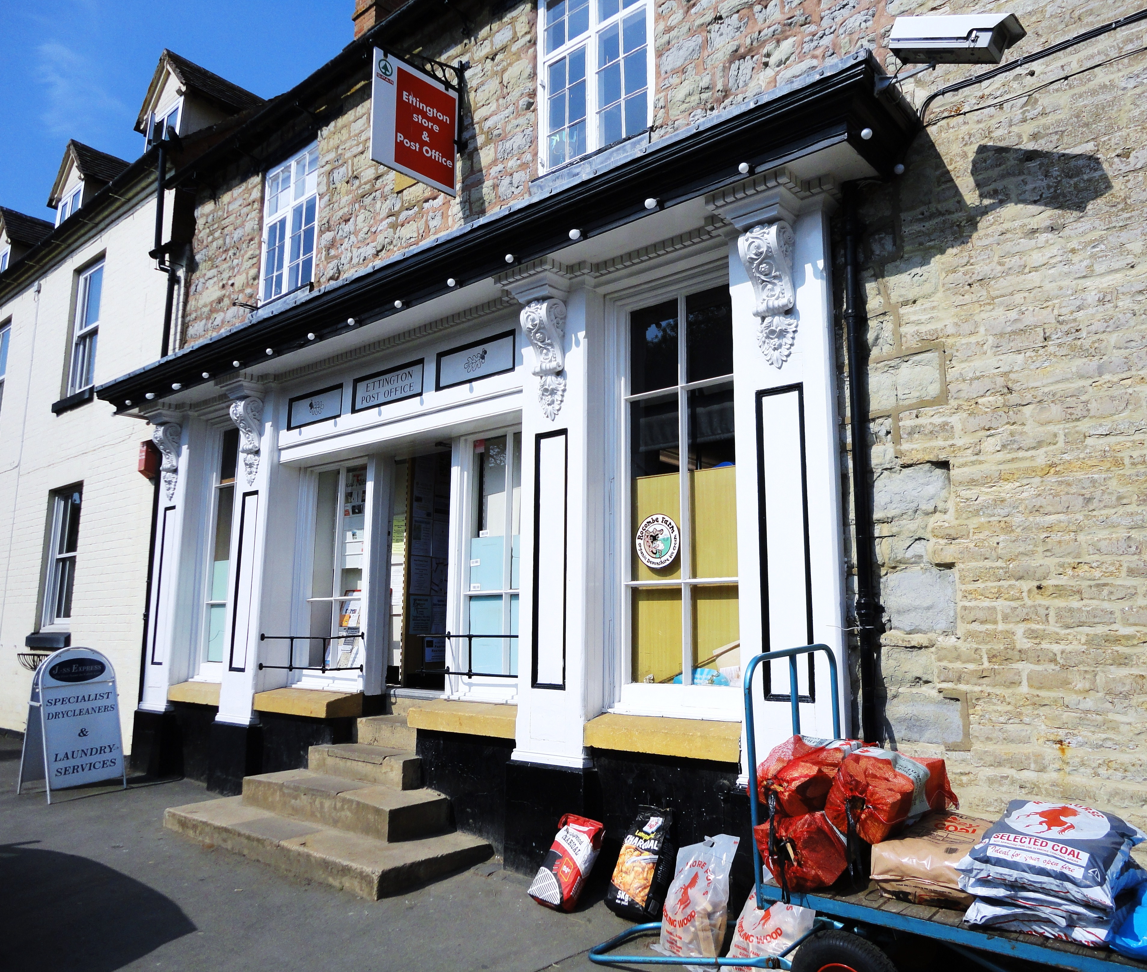 Ettington Post Office, Warwickshire ...